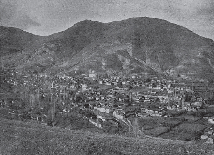 Village of Gorno Nevolyani or Neolani, Florina